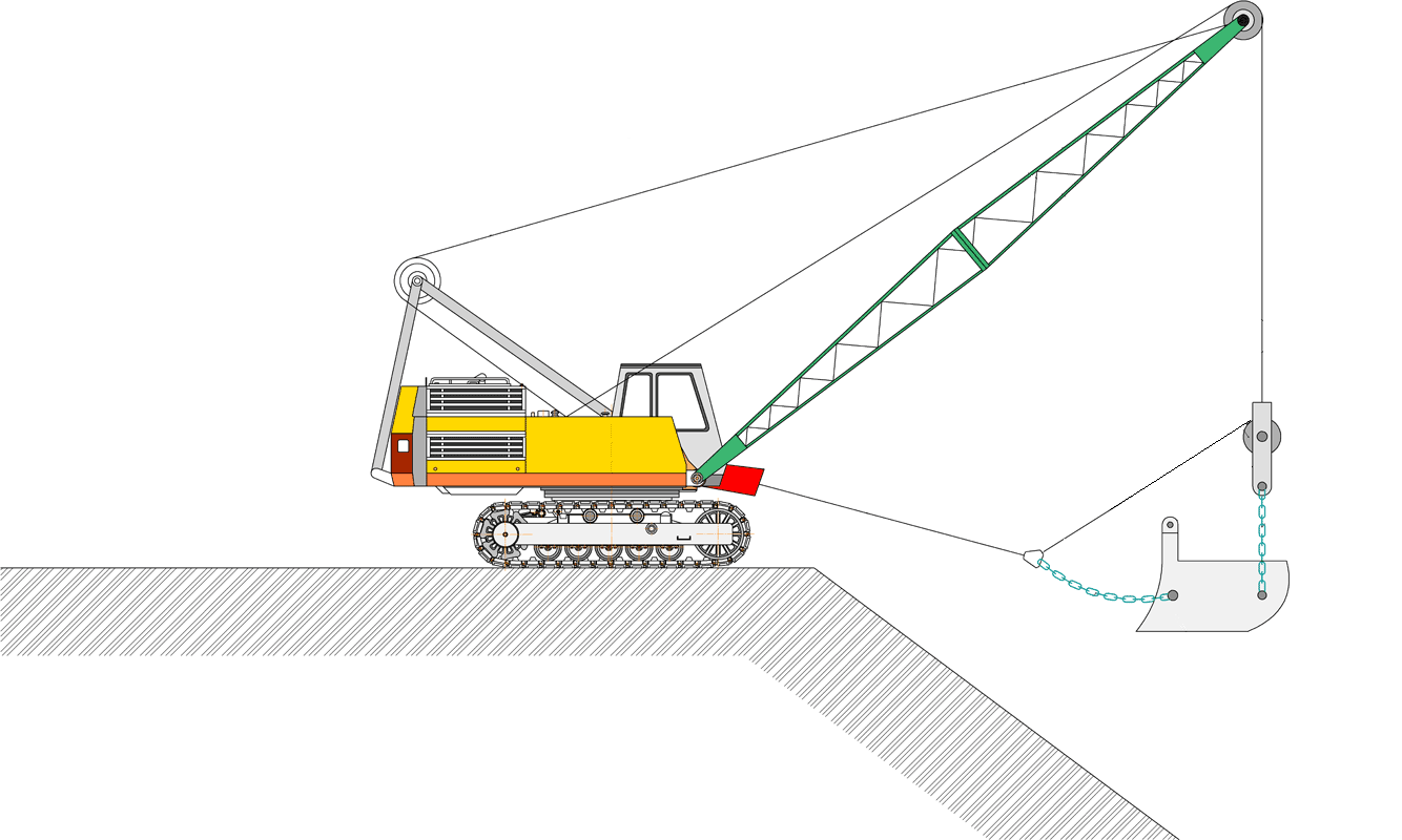 dragline excavator